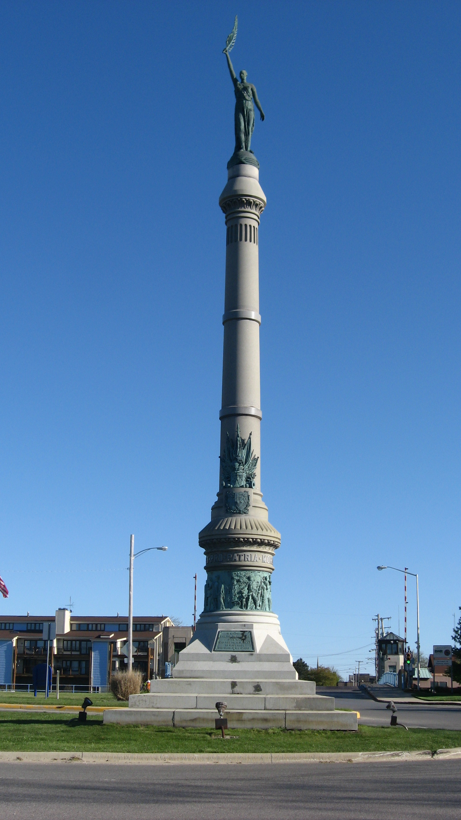 Northern side of the Soldiers' and Sailors' Memorial in Washington Park, near the Lake Michigan shoreline in Michigan City, Indiana, United States. Erected in 1896, the monument is part of the historic district component of Washington Park; the district is listed on the National Register of Historic Places.